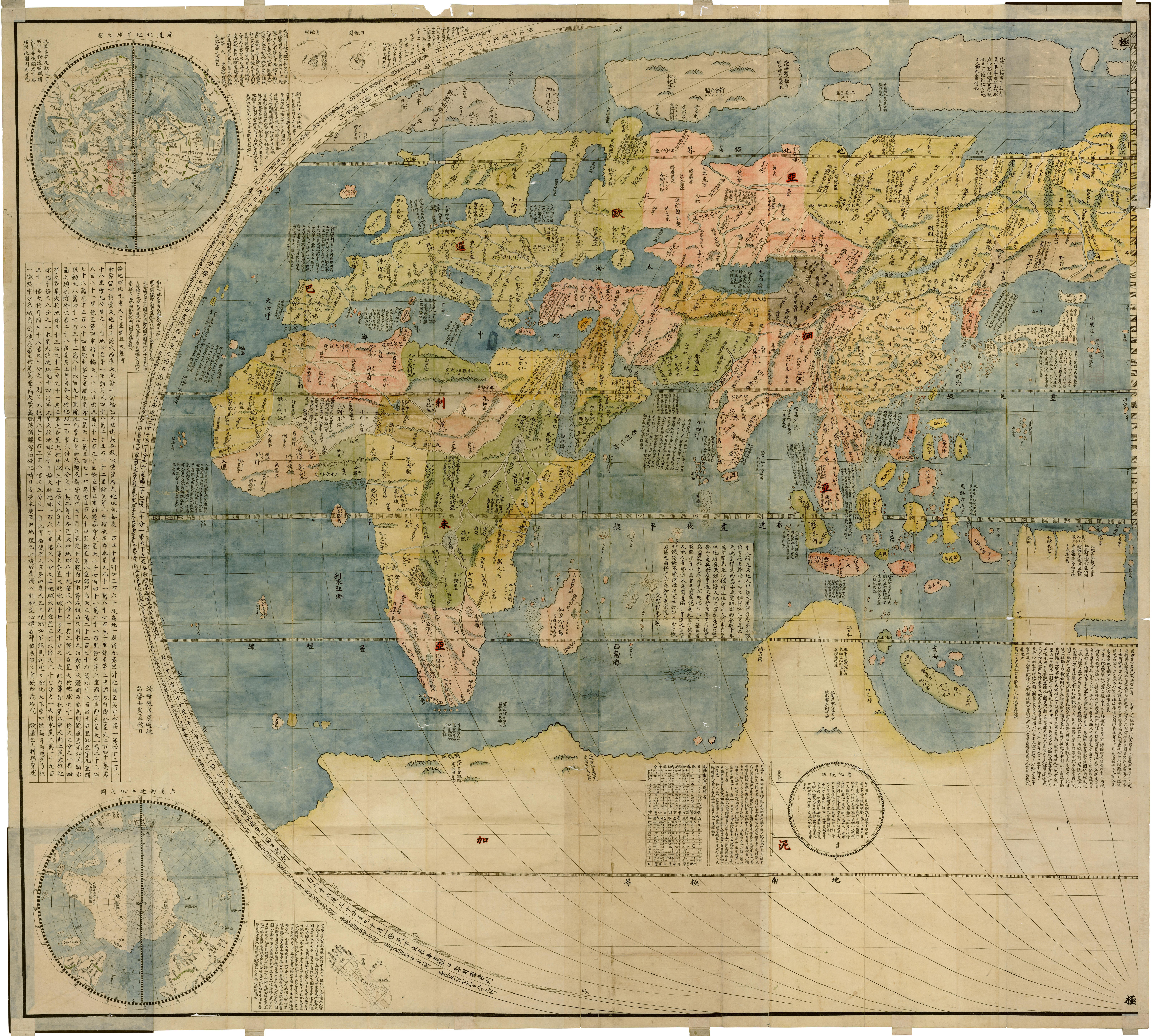 The left part of Impossible Black Tulip.